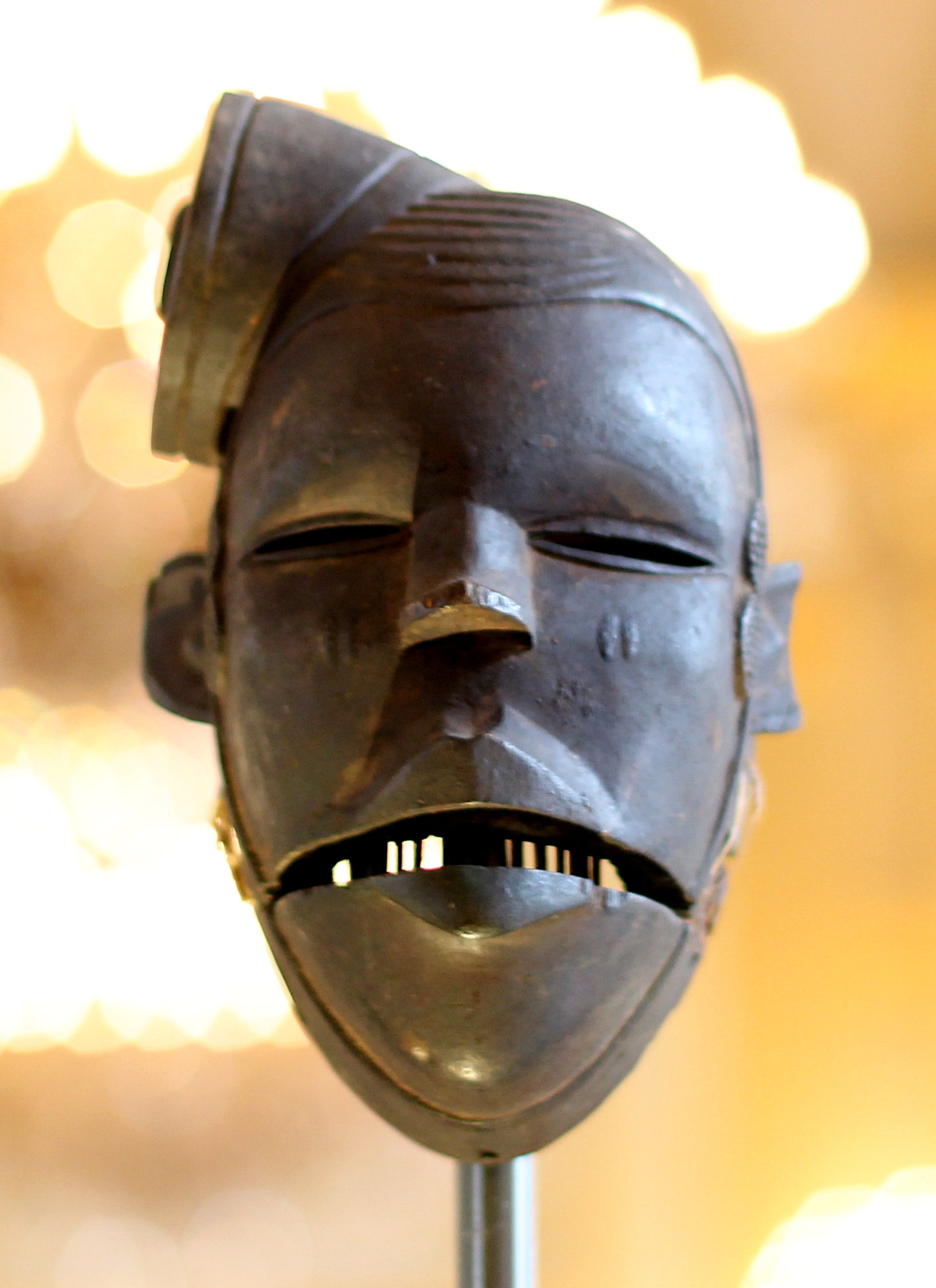 Mask exposed at the Royal Palace of Brussels.